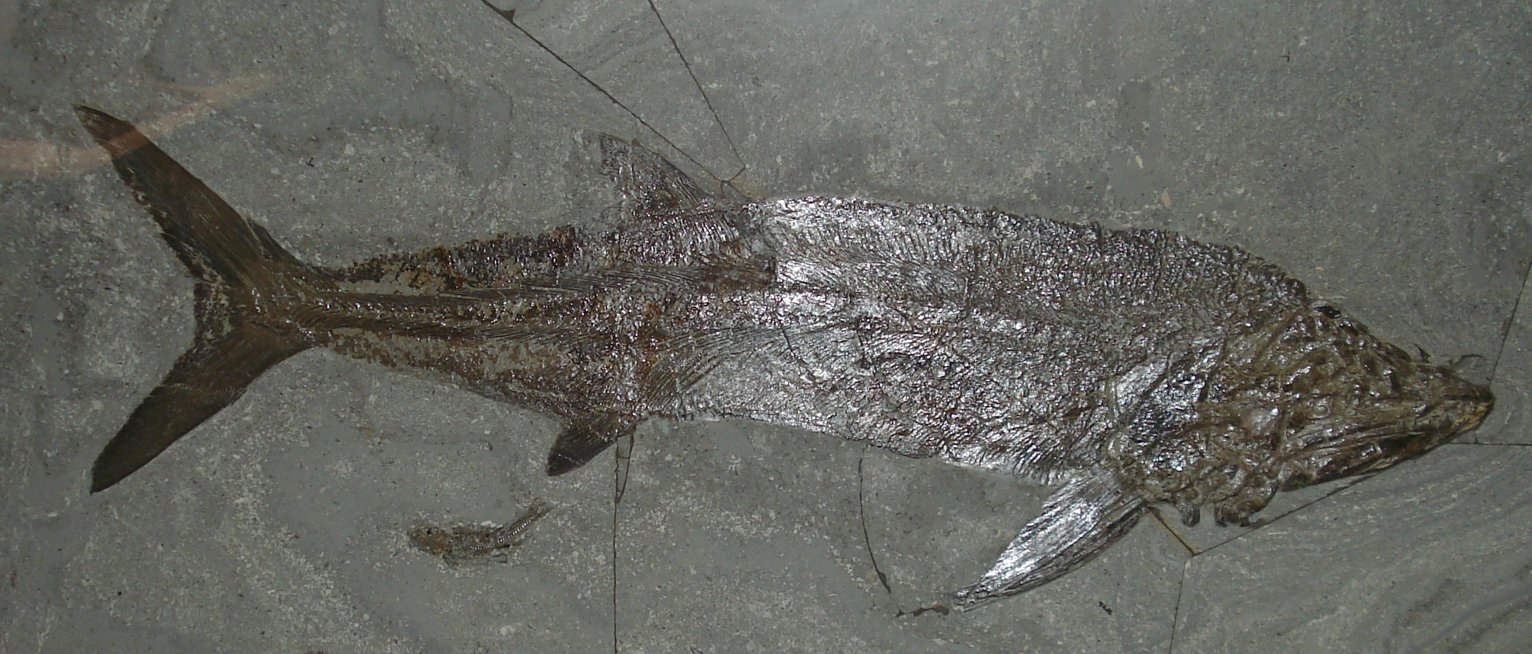 fossil of sauropsis